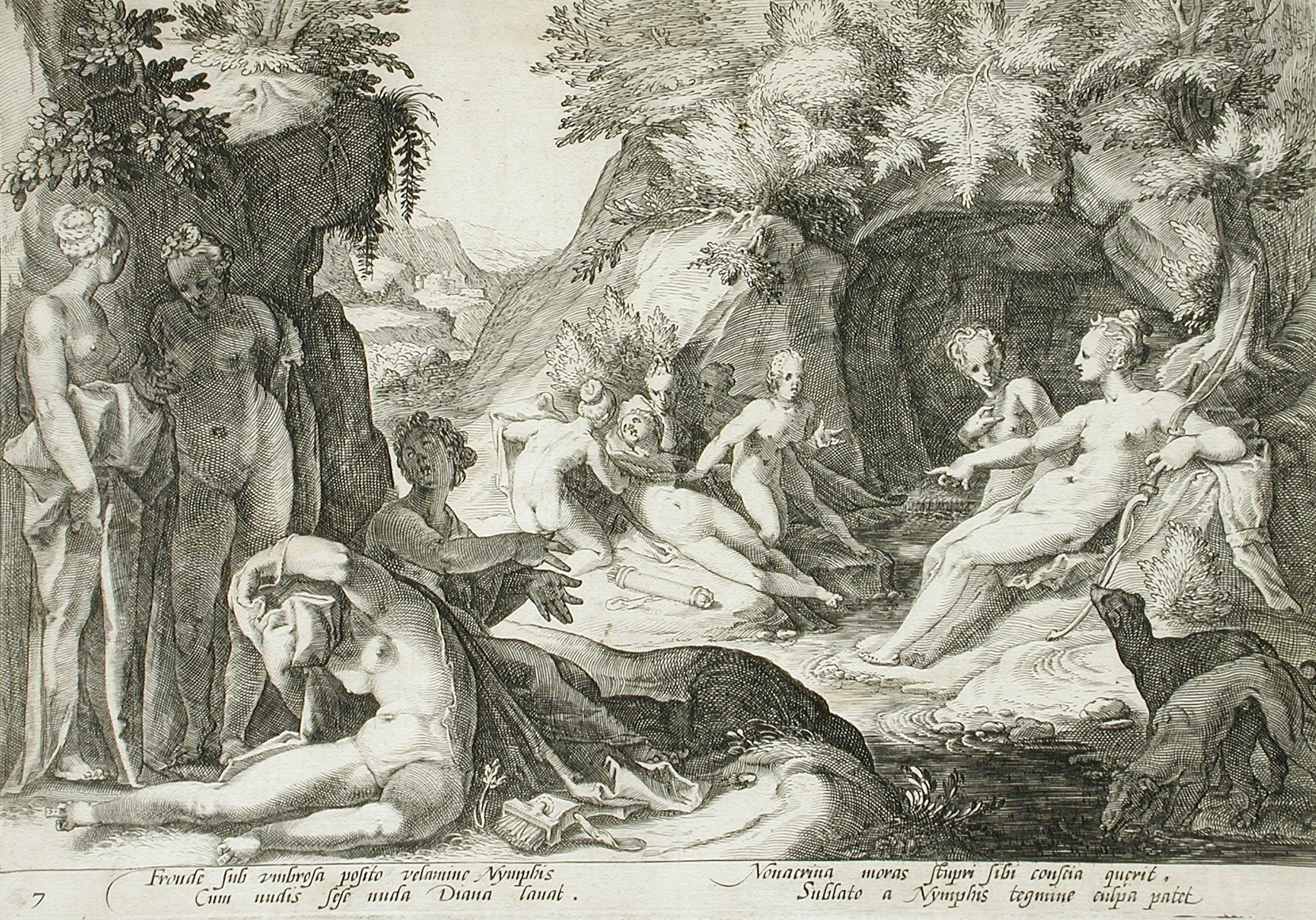 Holland, published 1590 Book: Metamorphoses by Ovid, book 2, plate 7 Prints; engravings Engraving Gift of Mary Stansbury Ruiz (M.83.119.4) Prints and Drawings